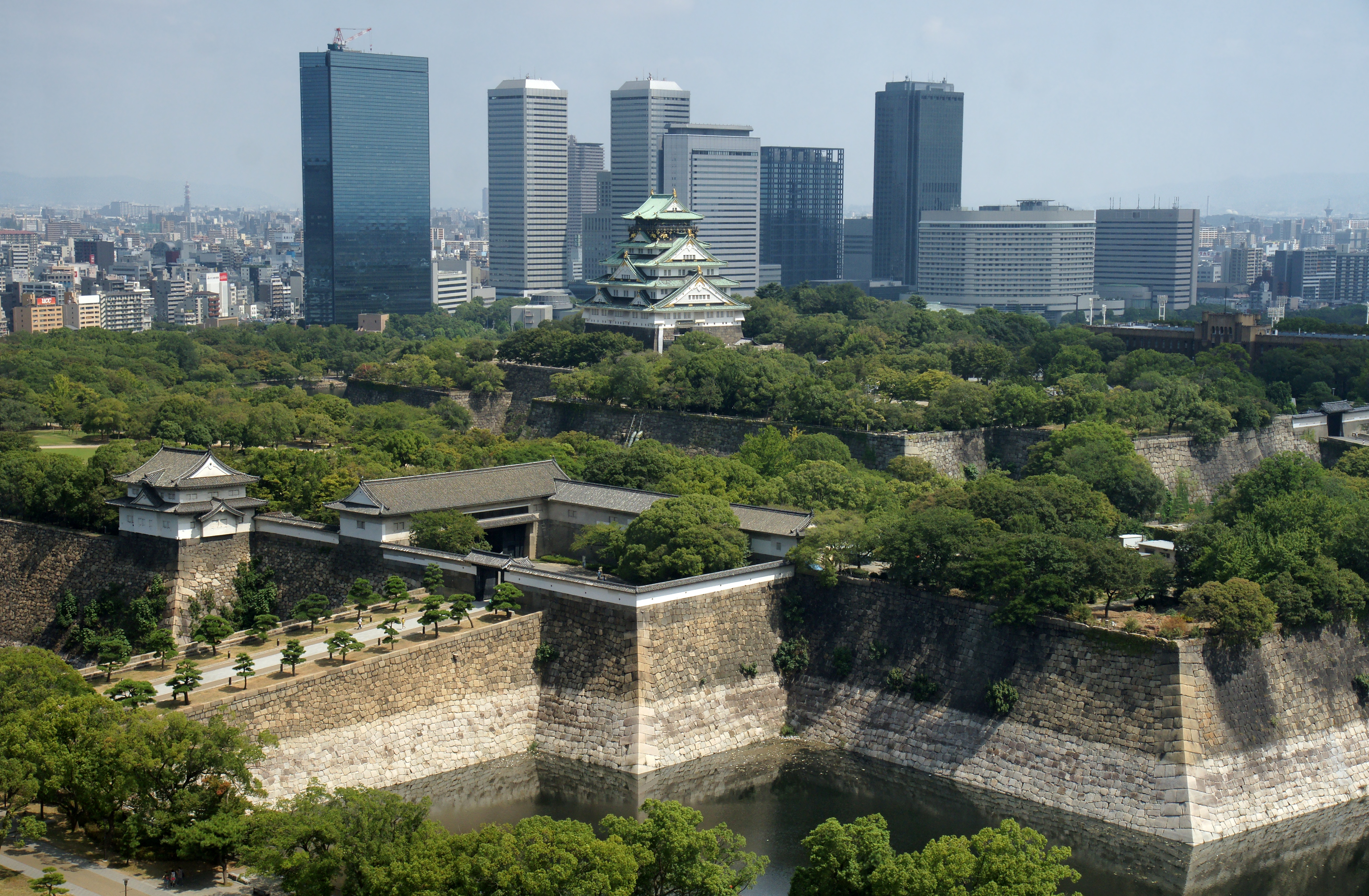 Osaka Castle in Chuo-ku, Osaka, Osaka prefecture, Japan